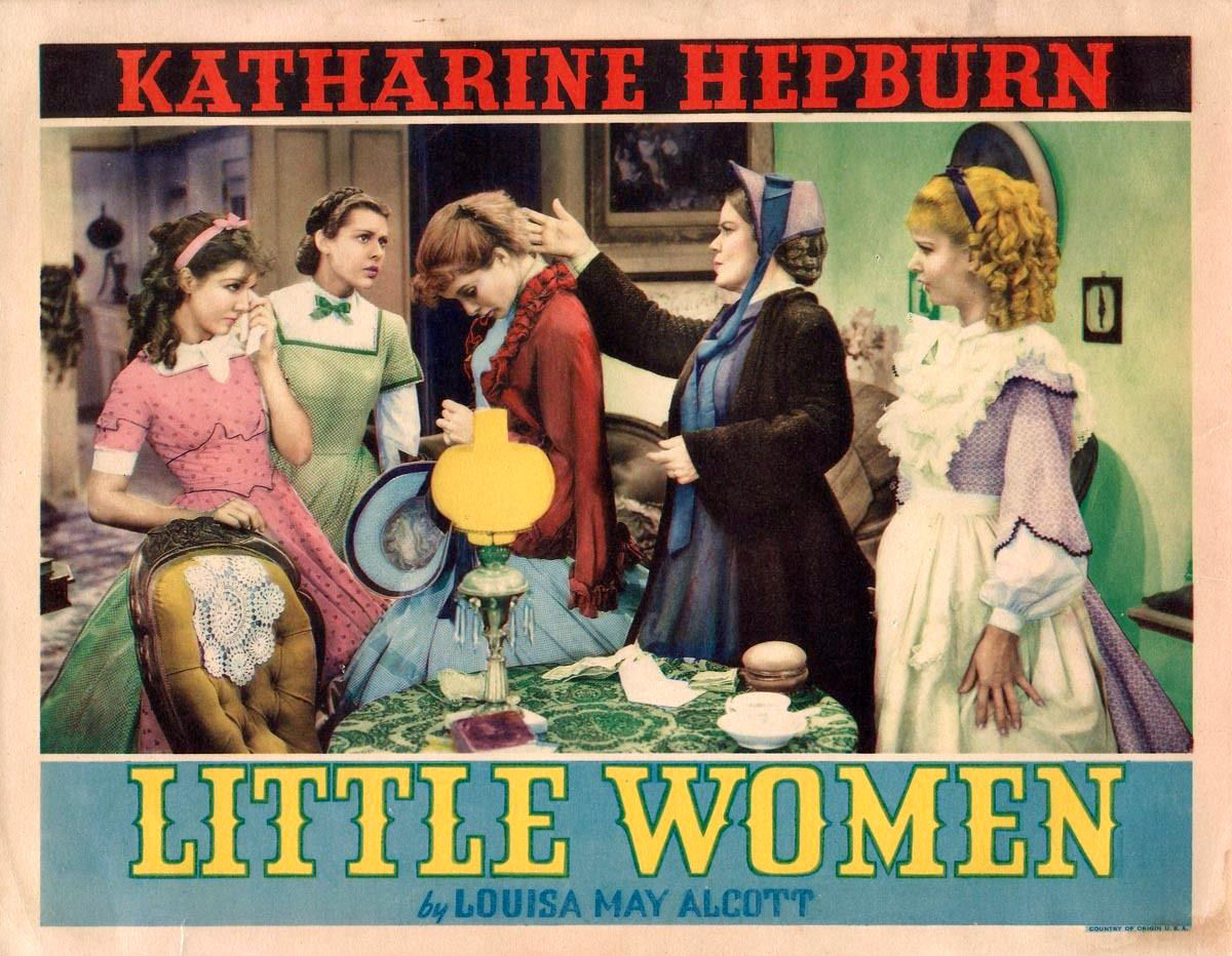 Lobby card for the American drama film Little Women (1933). The item has no copyright markings on it as can be seen in the links above. At bottom right is Country of origin USA.